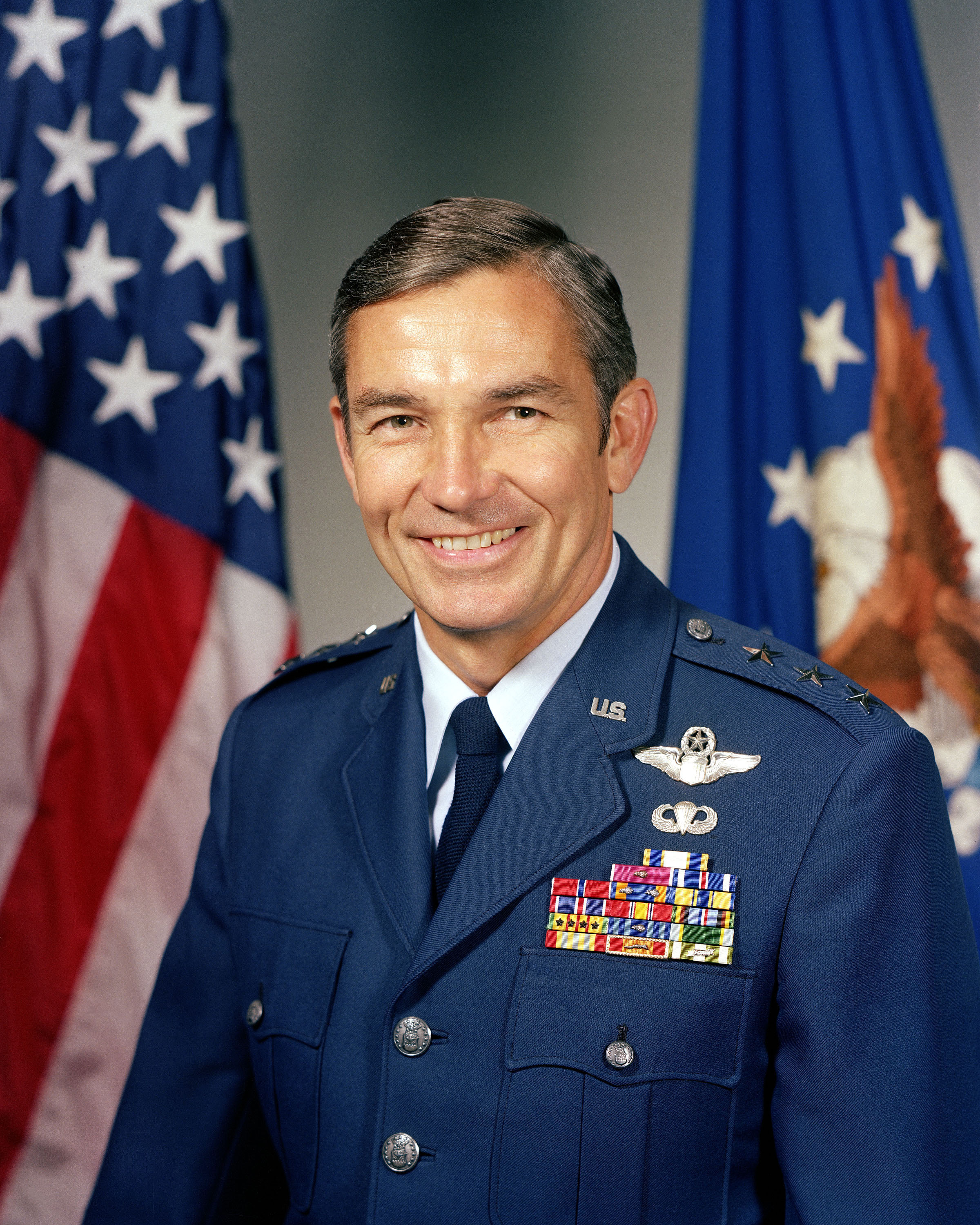 General Robert E. Kelley from [1]